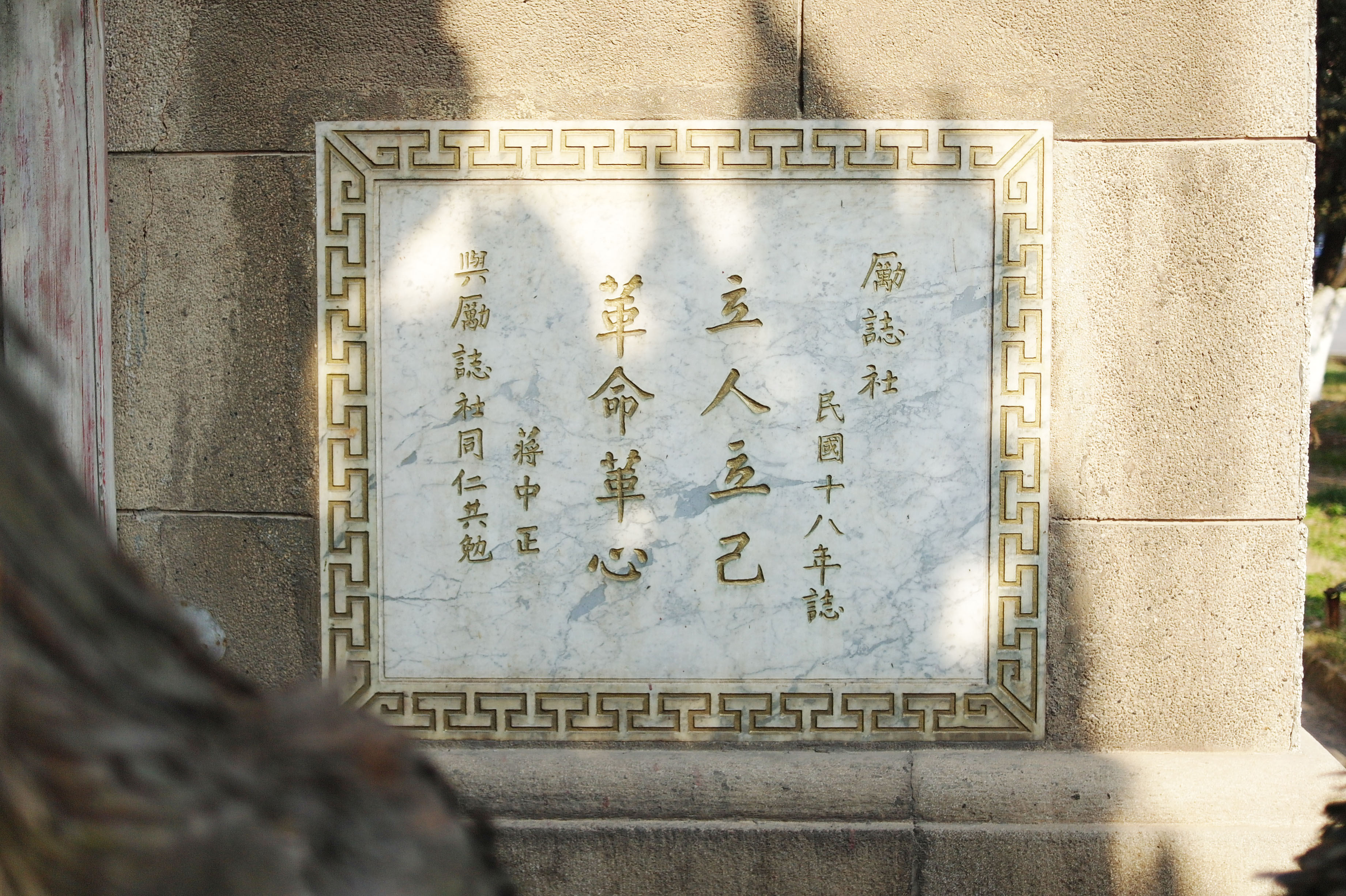 The inscription by Chiang Kai-shek in 1929, located on the right side of the front gate of Lizhishe, Nanjing.